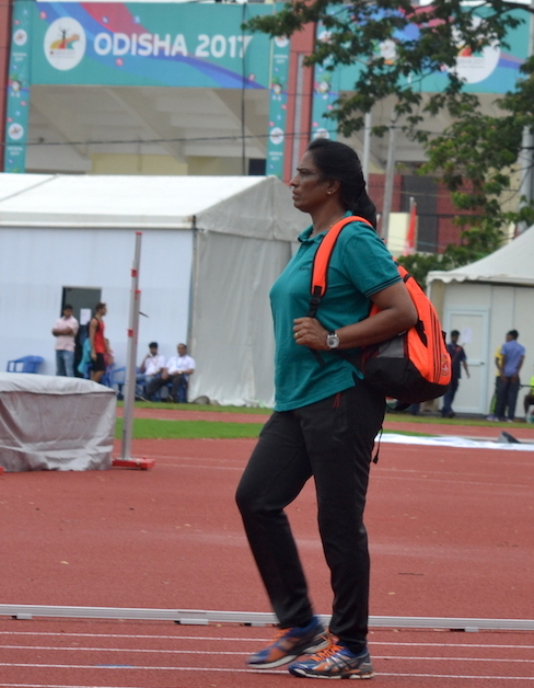 Team India In The Rally